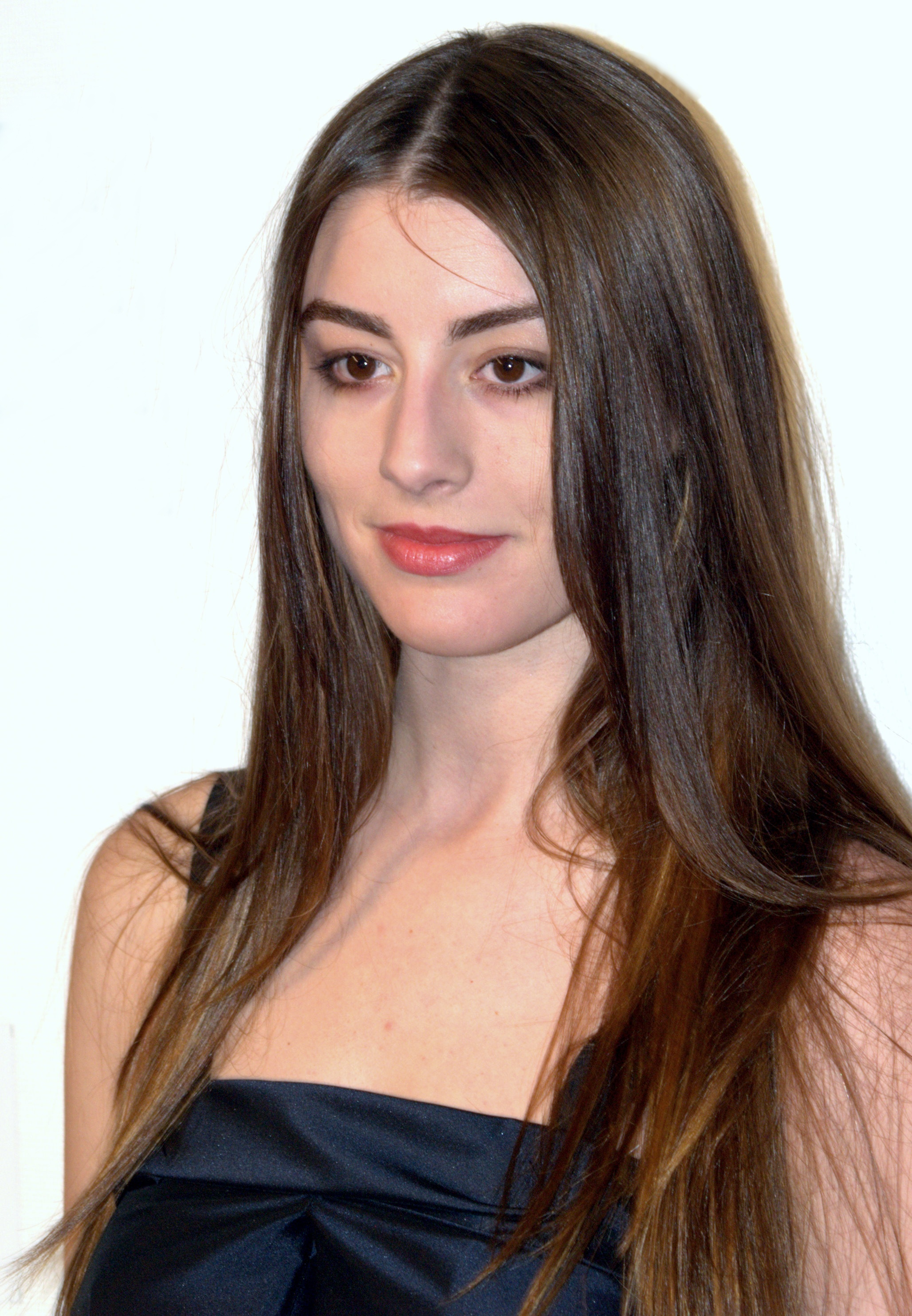 Actress Dominic Garcia-Lorido, daughter of Andy Garcia, at the 2009 Tribeca Film Festival for the premiere of City Island. Photographers blog post about the event for this photo.